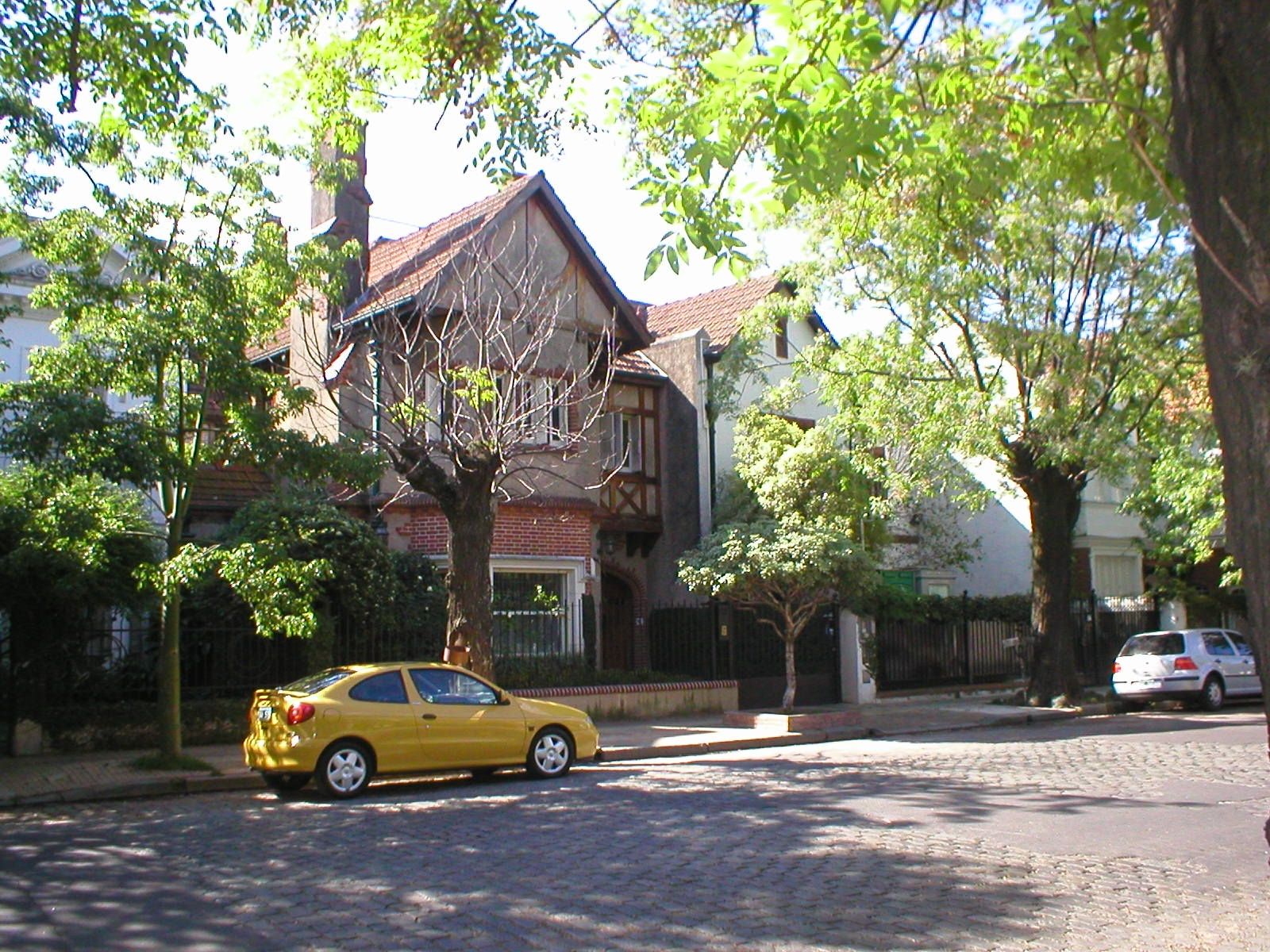 A typical residential street in Belgrano R.